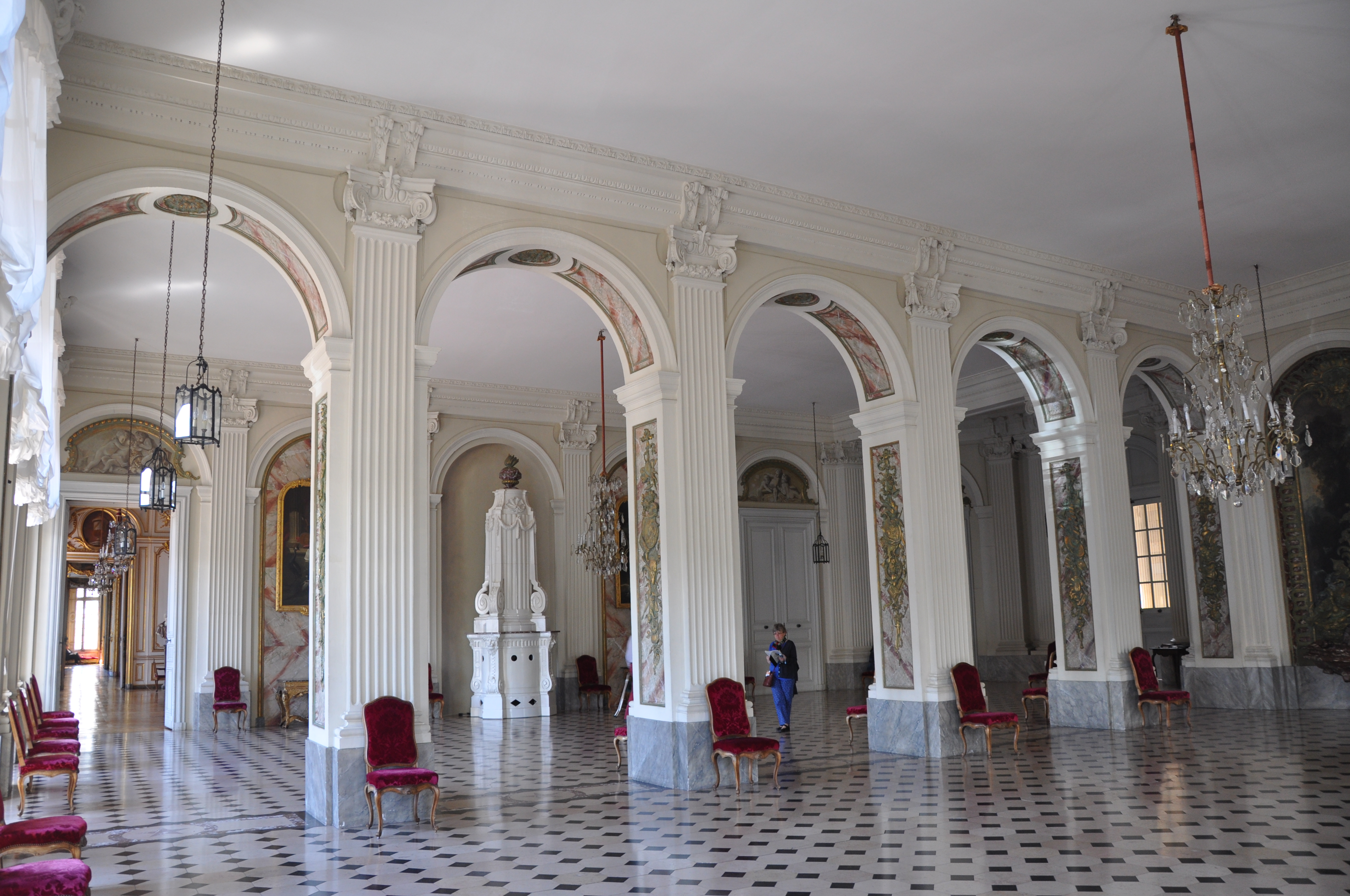 Palais Rohan, Strasbourg (France)